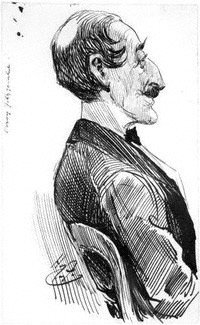 Drawing of Percy Fitzgerald by Harry Furniss (died 1925) c.1890